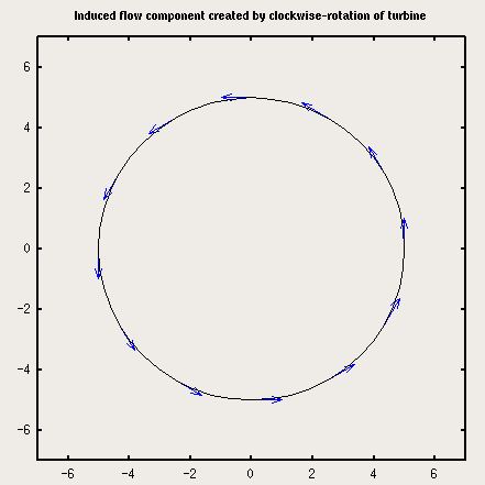 GHT Figure 2